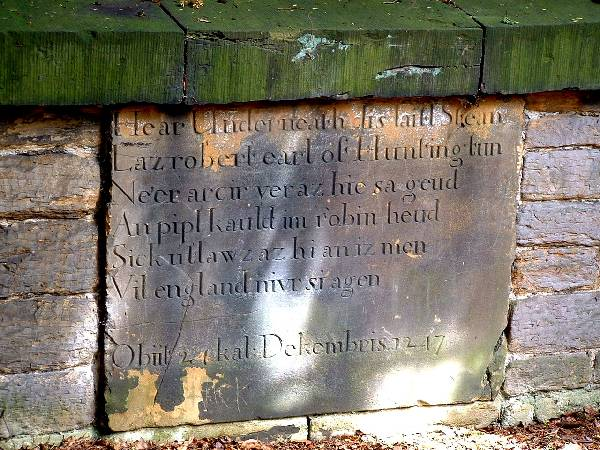 Robin Hood inscription on the gravestone in the Kirklees Estate grounds, in West Yorkshire